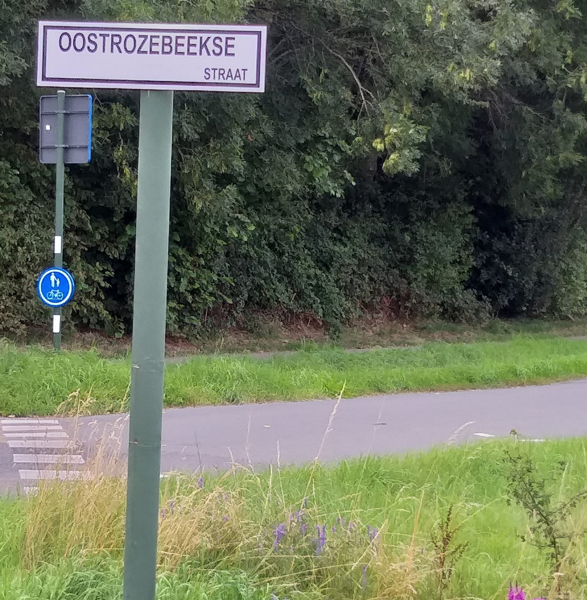 street view with street sign of Oostrozebeeksestraat in Hulste, Belgium.